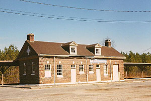 The Amtrak station in South Carolina. It was originally built in 1937 by the Seaboard Air Line Railroad.